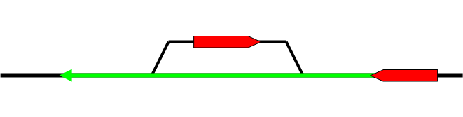 Example of passing loop action under the European safety rules, part 2: entry and exit route set for train #2